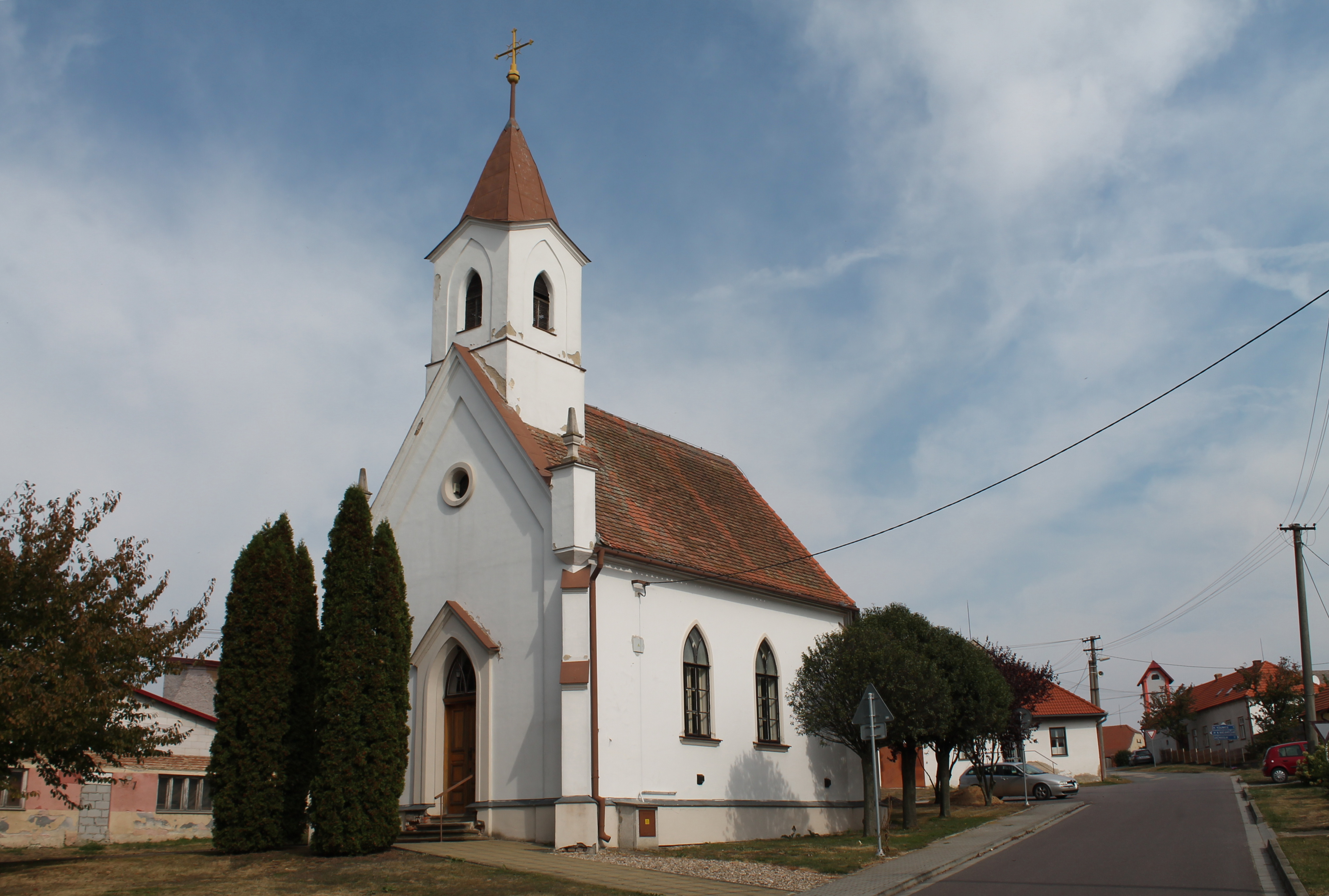 Chapel of Saints Cyril and Methodius, Medlice, Znojmo District, Czech Republic This photograph was taken during a group photography field trip by Brno Wikipedians: 2016-09-28.